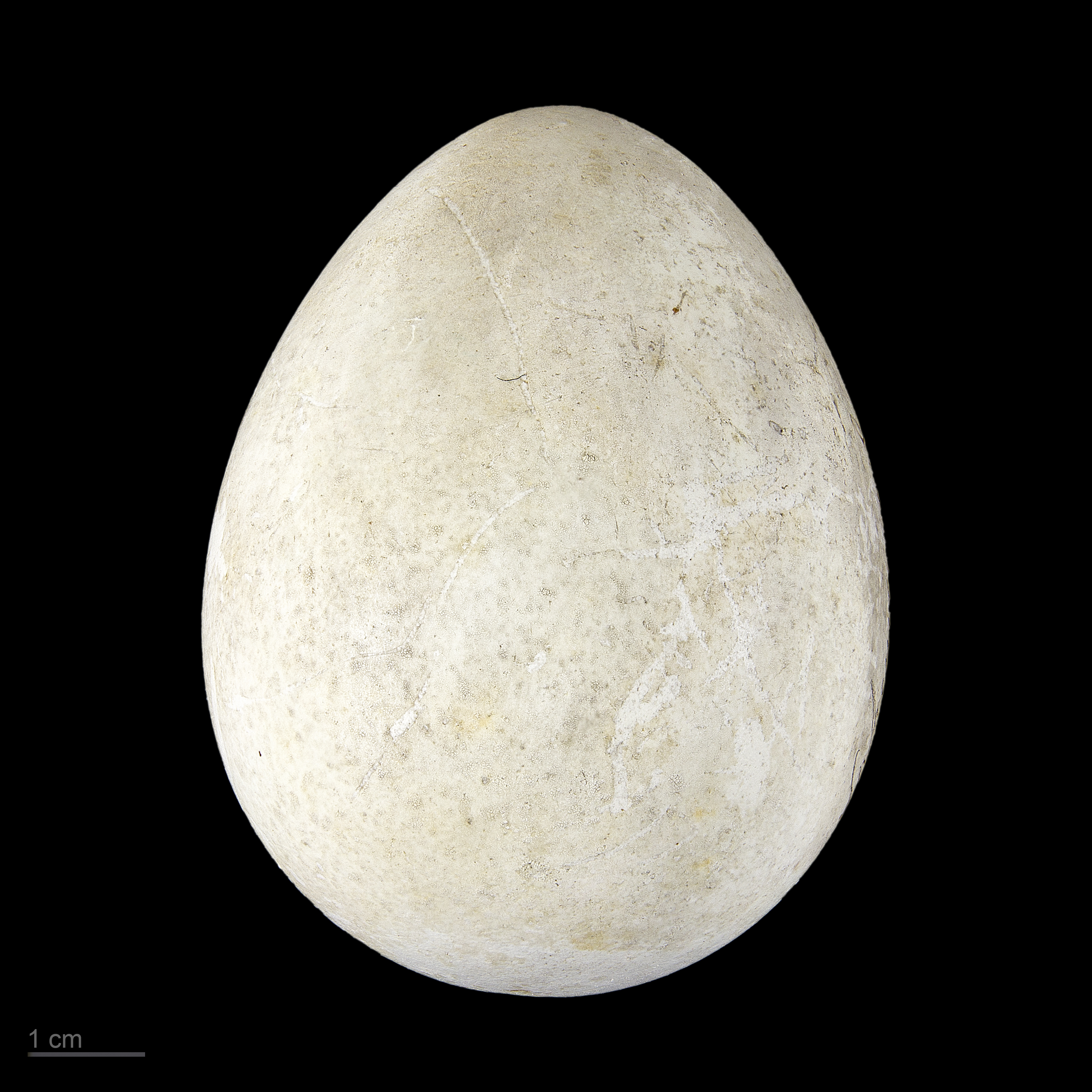 Eggs of African penguin collection of Jacques Perrin de Brichambaut.